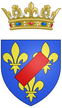 Coat of arms of Louis Jean Marie de Bourbon, Duke of Penthièvre